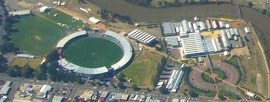 Aurora Stadium from Melbourne-Launceston flight, Tasmania, Australia